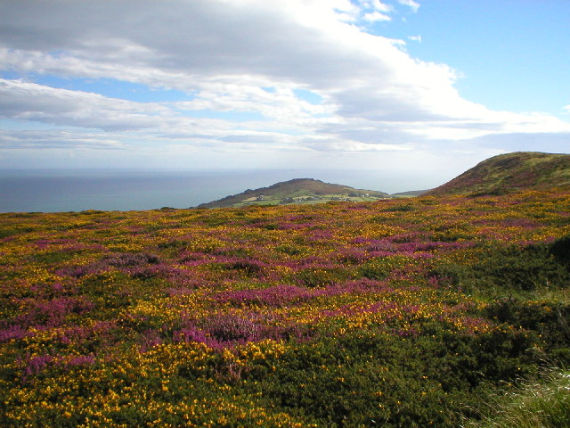 On Mynydd Rhiw looking towards Rhiw. Looking almost due south